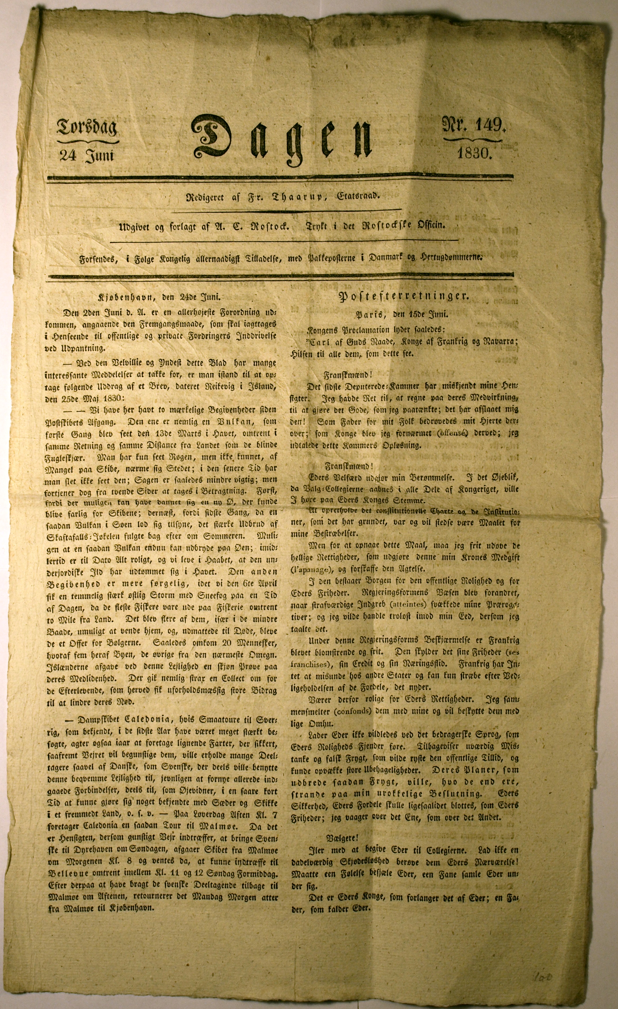 Avisen "Dagen", 24. juni 1830. Forsiden